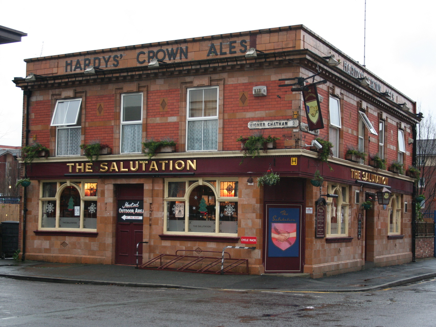 The blue plaque on the side of this rather nice looking pub says: Charlotte Bronte (1816 - 1855). In 1846 The Revd. Patrick Bronte came to Manchester for a cataract operation accompanied by his daughter Charlotte. They took lodgings at 59 Boundary Street West (formerly known as 83 Mount Pleasant). It was here that Charlotte began to write her first successful novel Jane Eyre. So, ambiguous info from Manchester's Blue Plaque people (who are presumably bigging up Manchester's tourist opportunities), but clearly it wasn't this building, which I'd say dates from the 1880s? The problem is that the plaque was first placed on a building in Boundary Lane some distance to the west. When this building was demolished for redevelopment the plaque was saved. The Brontes were lodging at 83 Mount Pleasant and the eye hospital was then in South Parade, Manchester (until 1867)